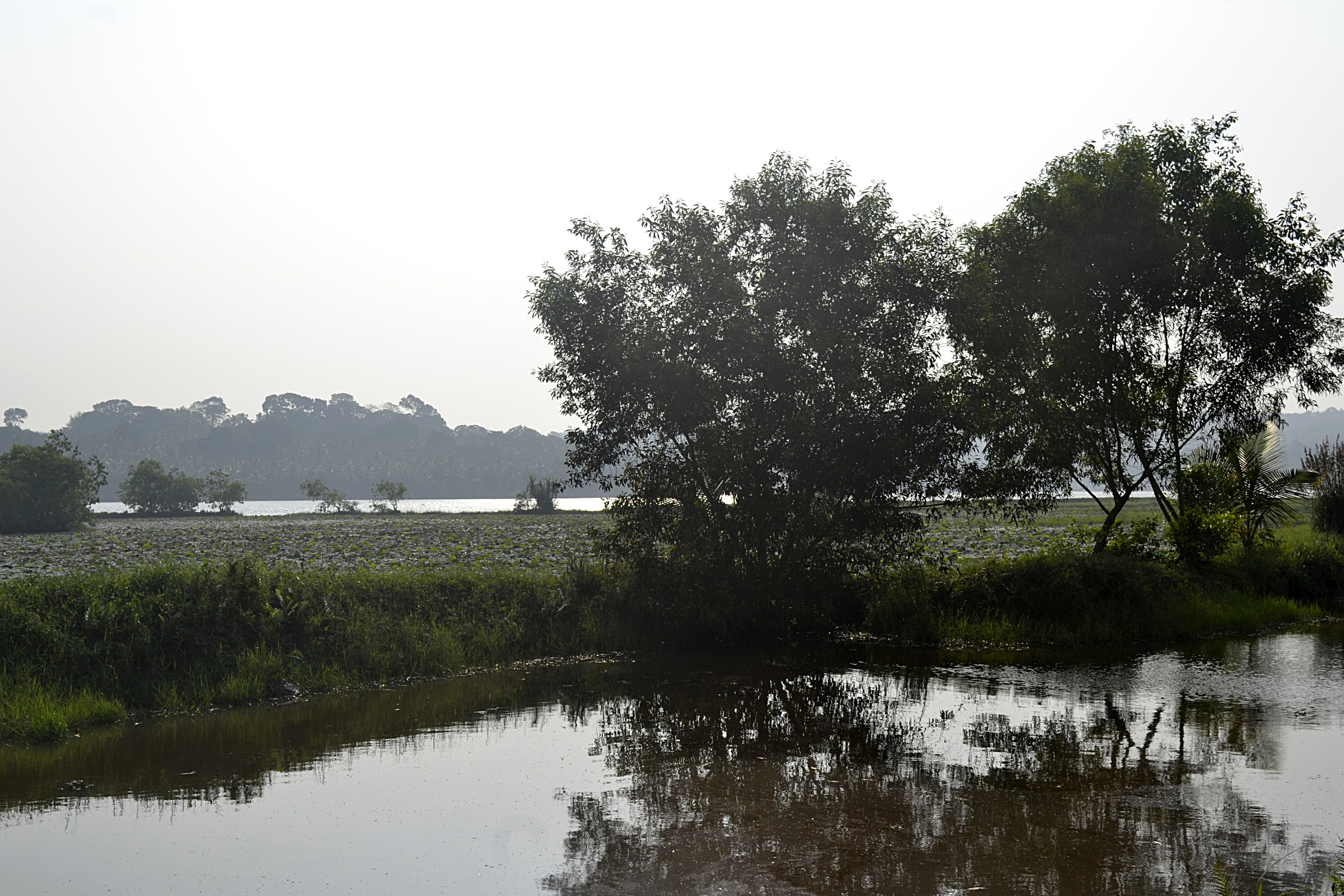 kanthari international has a magnificent campus that is streamlined with perfect harmony with the surrounding environment. This is a view of the surroundings from the western back end of the campus.